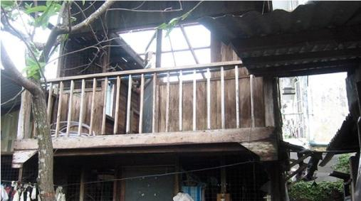 A home in Rangoon, Burma is left without its roof following Cyclone Nargis May 5, 2008. [State Department photo]